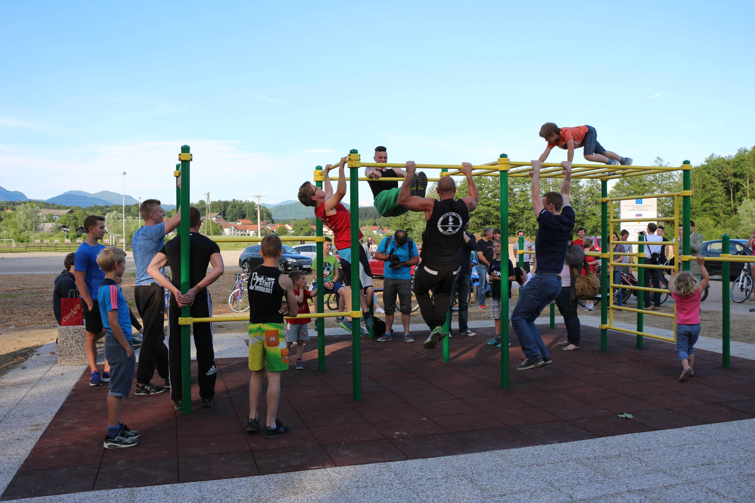 Street workout Slovenija